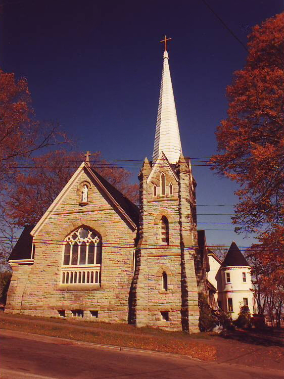 St. John The Evangelist Roman Catholic Church. Verne Equinox 01:15, 2 May 2006 (UTC)